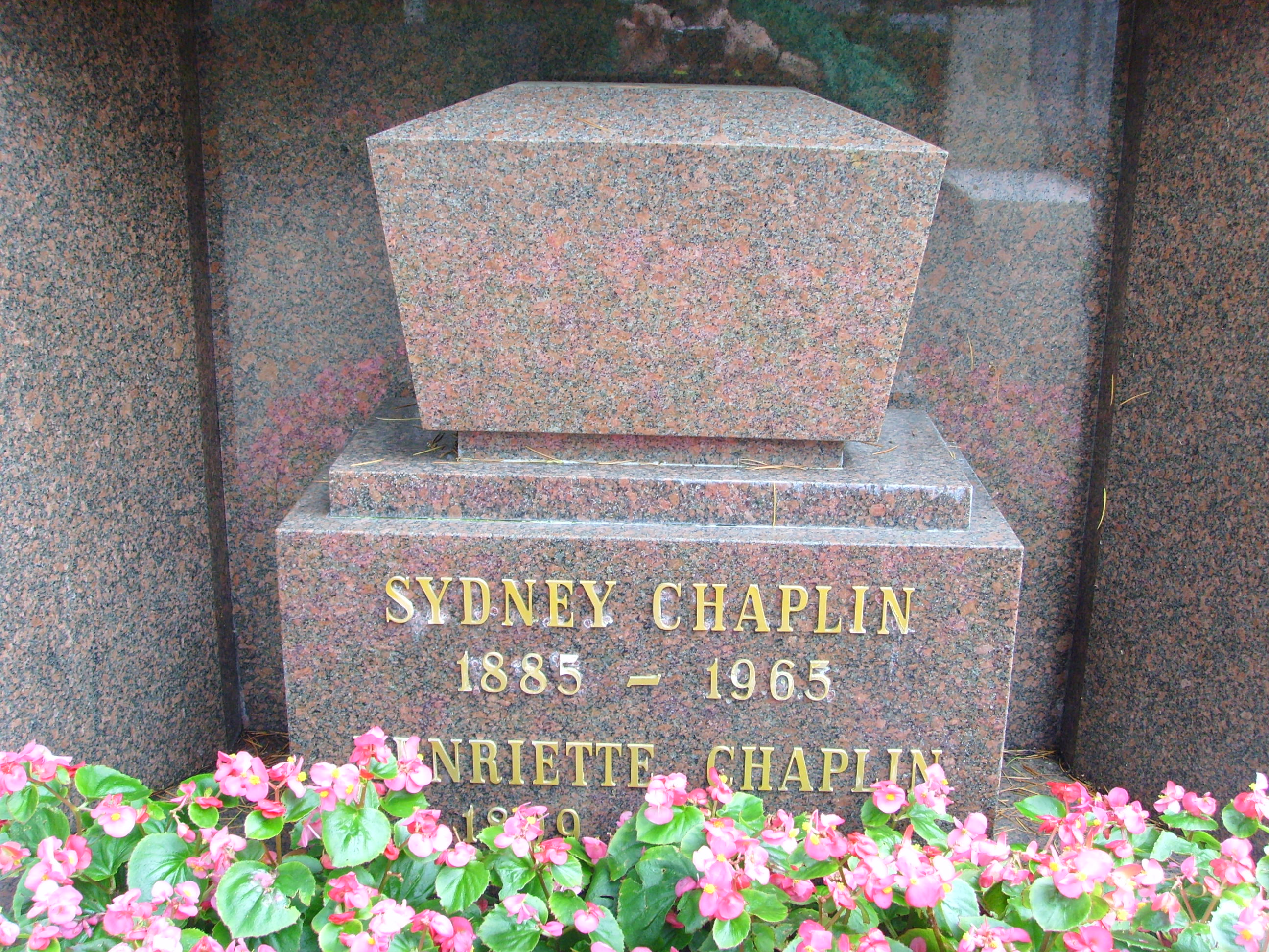 Gravestone of Sydney Chaplin, b. March 16, 1885 d. April 16, 1965, half-brother and business manager of Charlie Chaplin, Cimetière de Clarens-Montreux, CH-1815 Clarens, Vaud, Switzerland. He played roles in "Shoulder Arms," "Pay Day," "A Dog's Life," "A Little Bit of Fluff," "The Missing Link" and "The Pilgram."